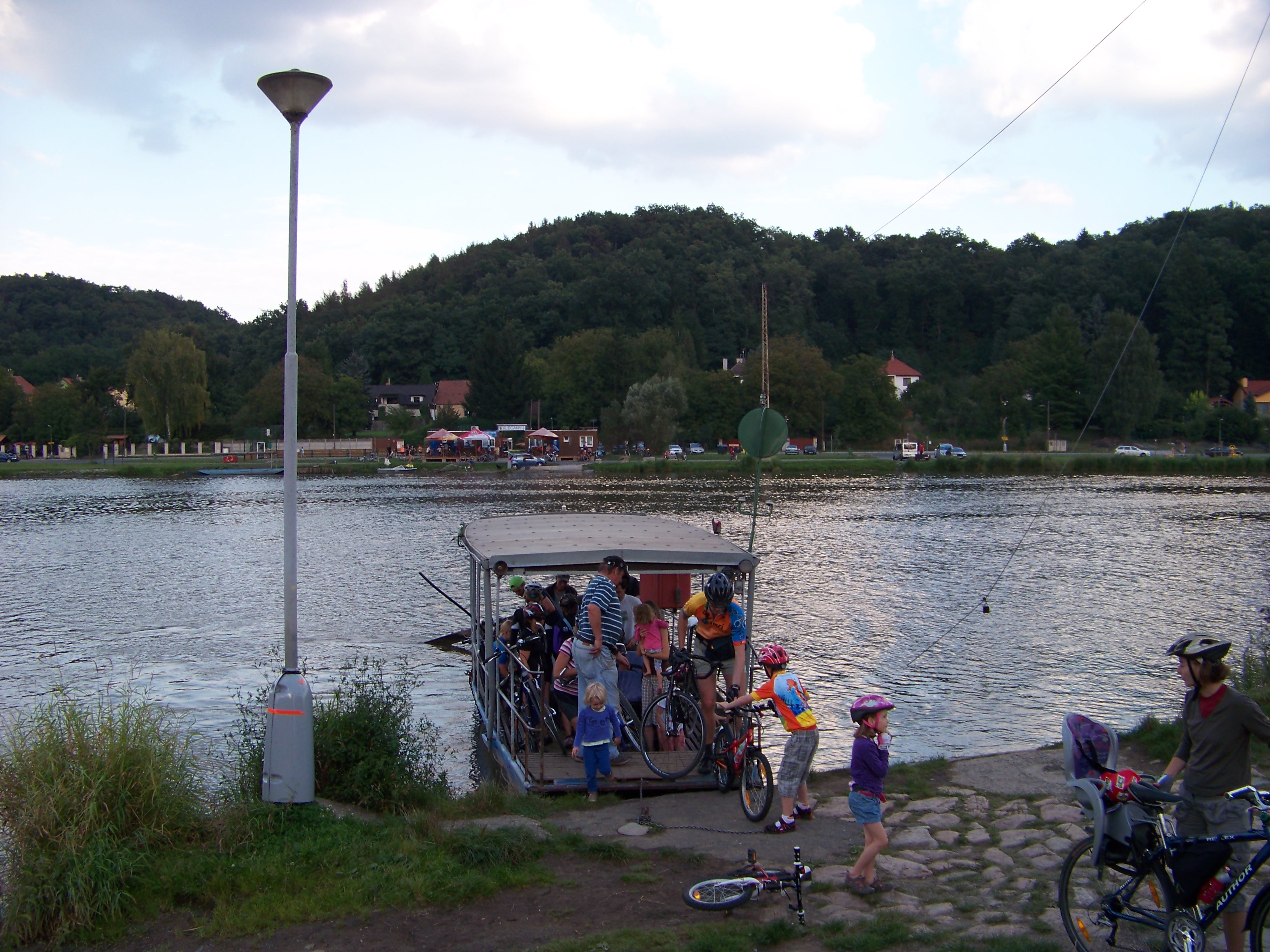 Roztoky, Prague-West District and Klecany-Klecánky, Prague-East District, Central Bohemian Region, Czech Republic. A Vltava ferry.